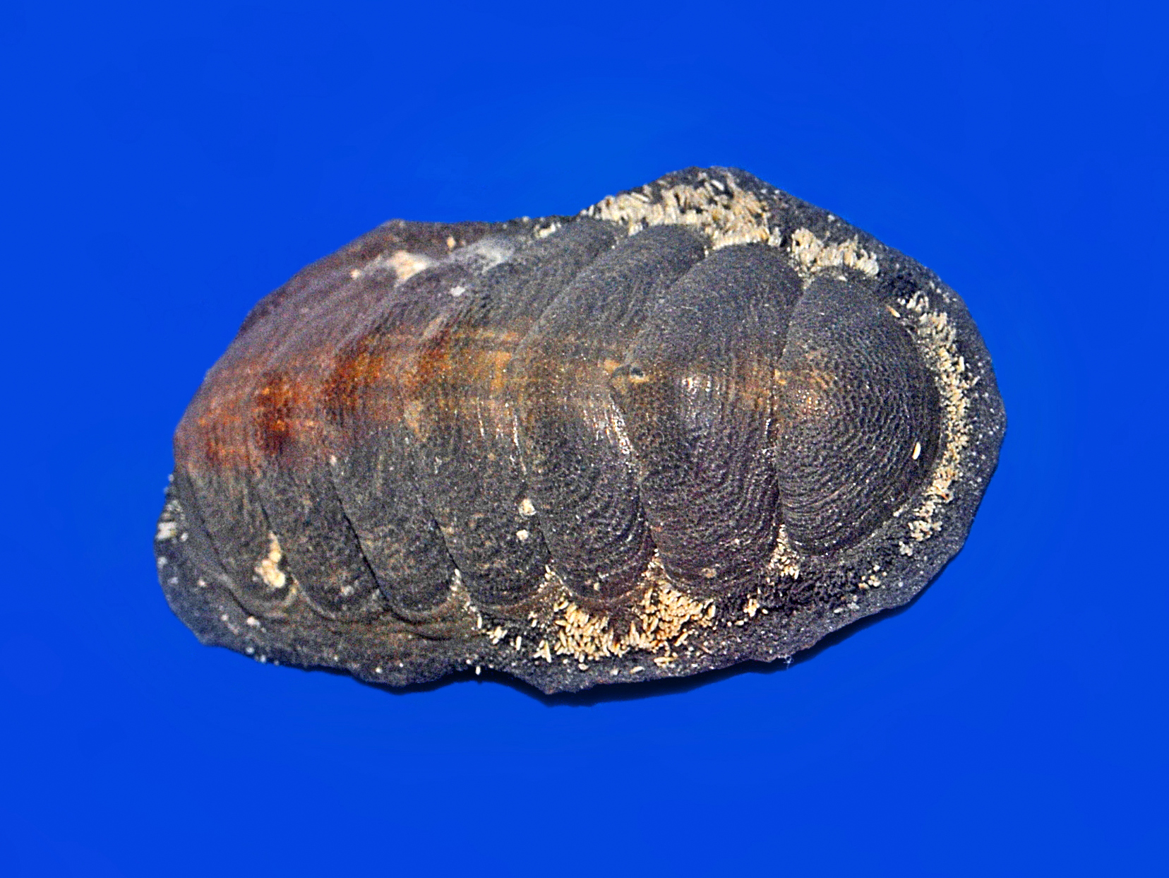 A mounted specimen of Acanthopleura gemmata at the Museo Civico di Storia Naturale di Milano